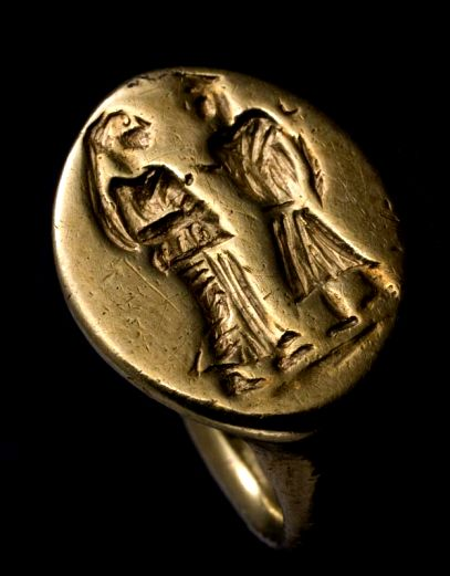 Golden ring MM BG 1992